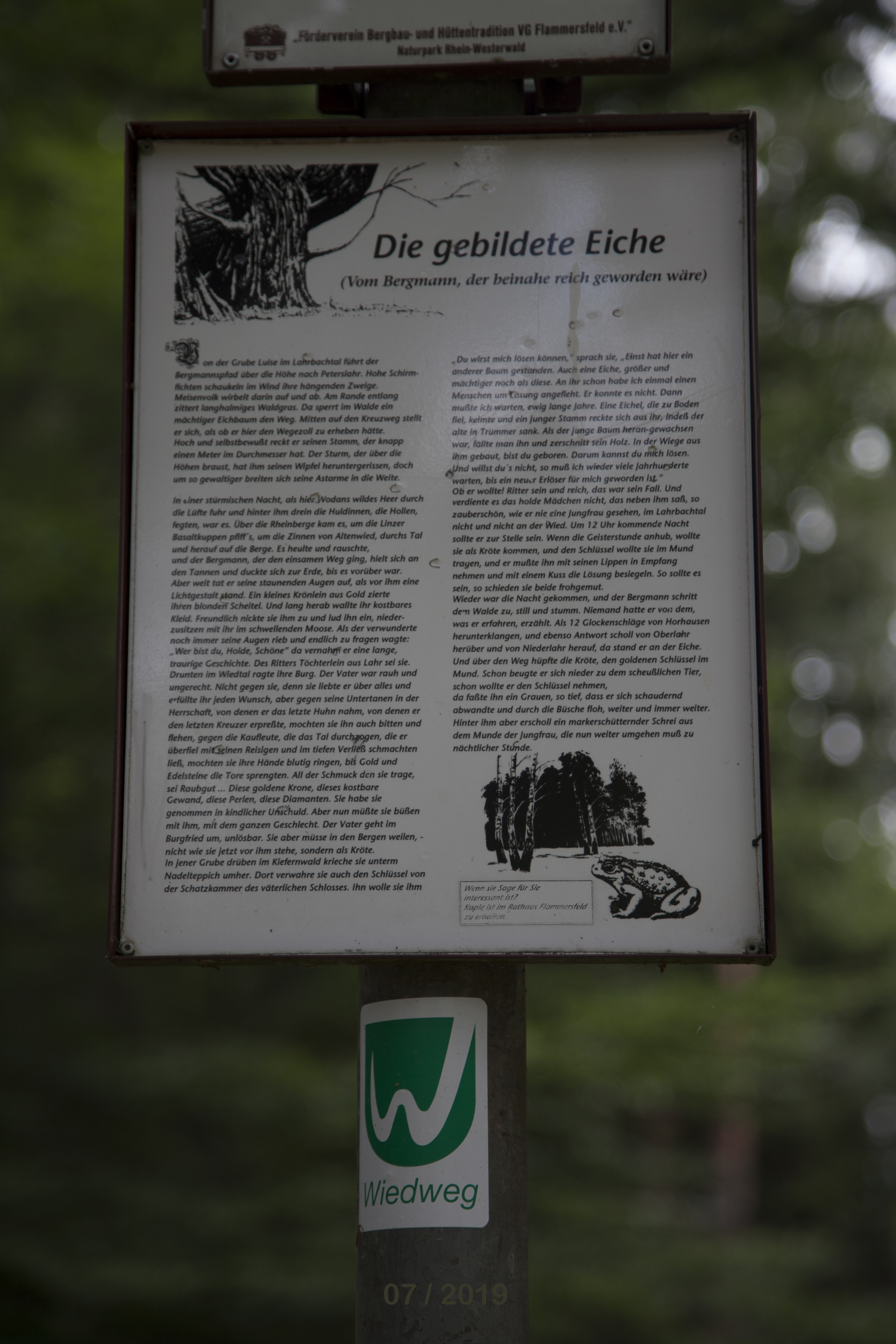 Information plaque beside the oak (Quercus spec.) telling the historical story of the tree and of the knight's maiden [meaning of "Bildeiche" = picture oak], at Western Forest around village Burglahr